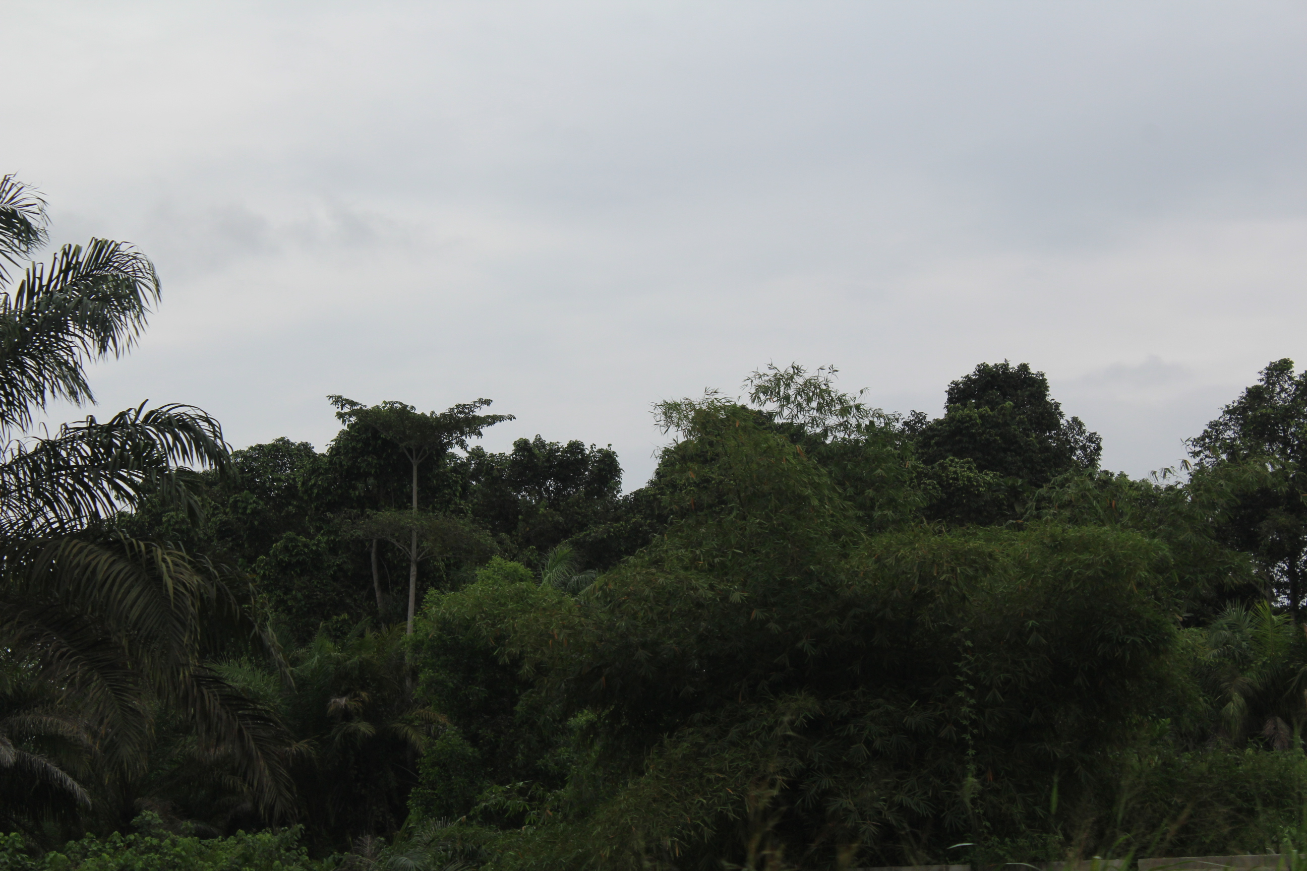 Typical vegetation close to Pointe-Noire